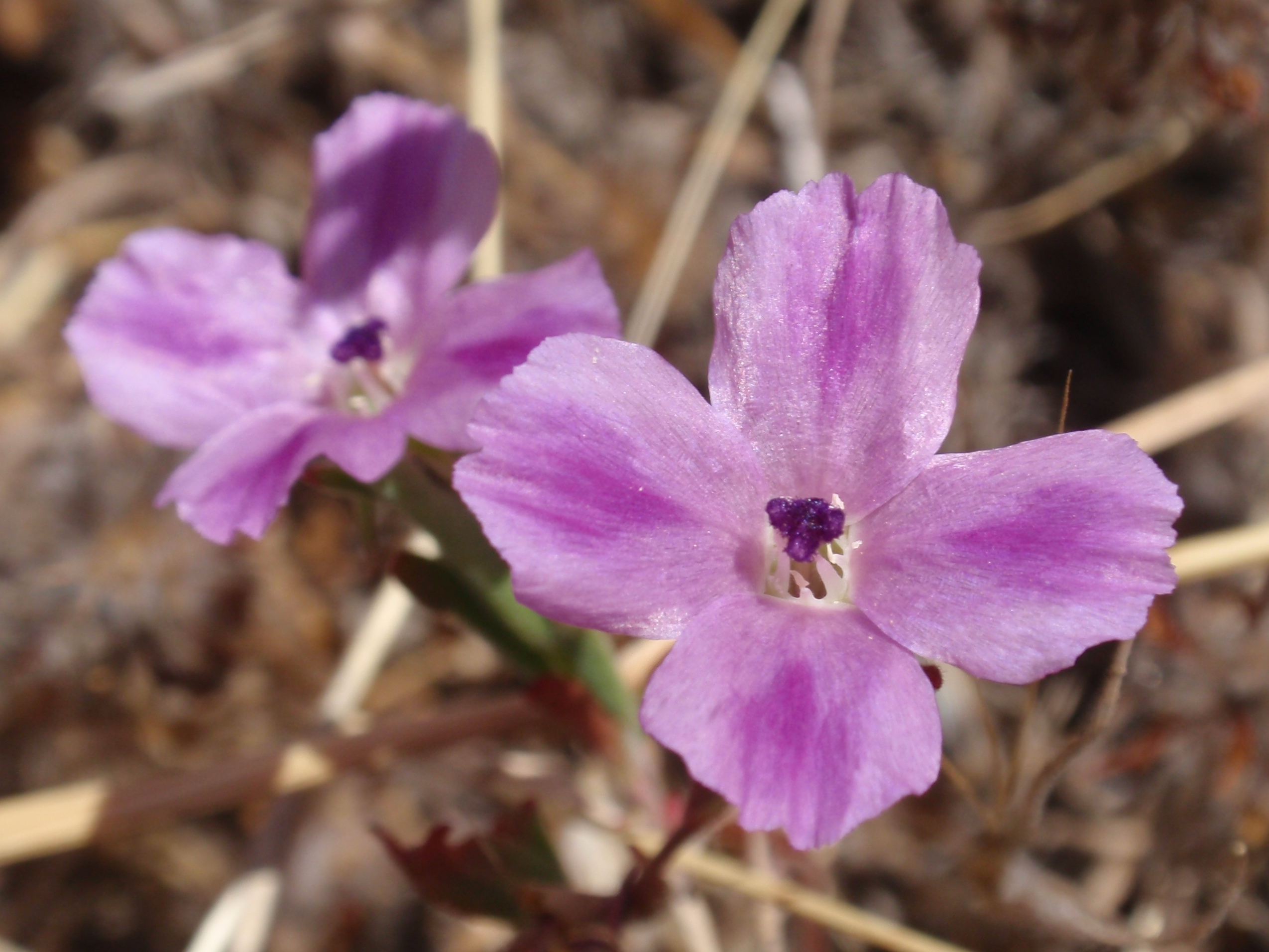 Clarkia purpurea subsp. quadrivulnera. On the coast/west face of Mount Tamalpais, California.